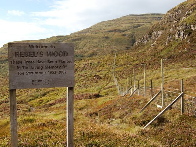 Rebel's Wood. Carbon offset project in memory of Joe Strummer. Some 200 acres are being planted with a selection of native tree species.